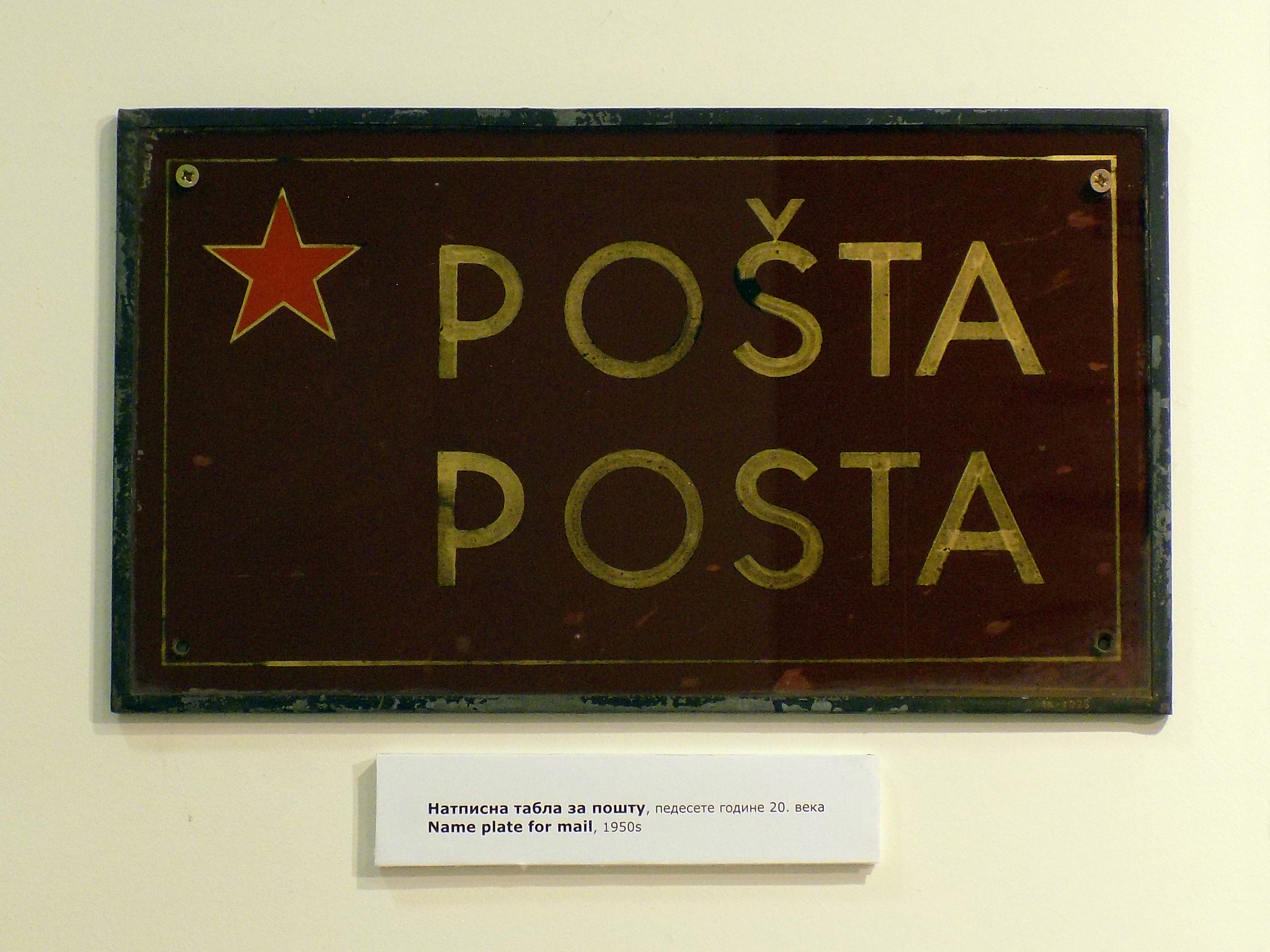 Postal name plate in Yugoslavia, around 1950's